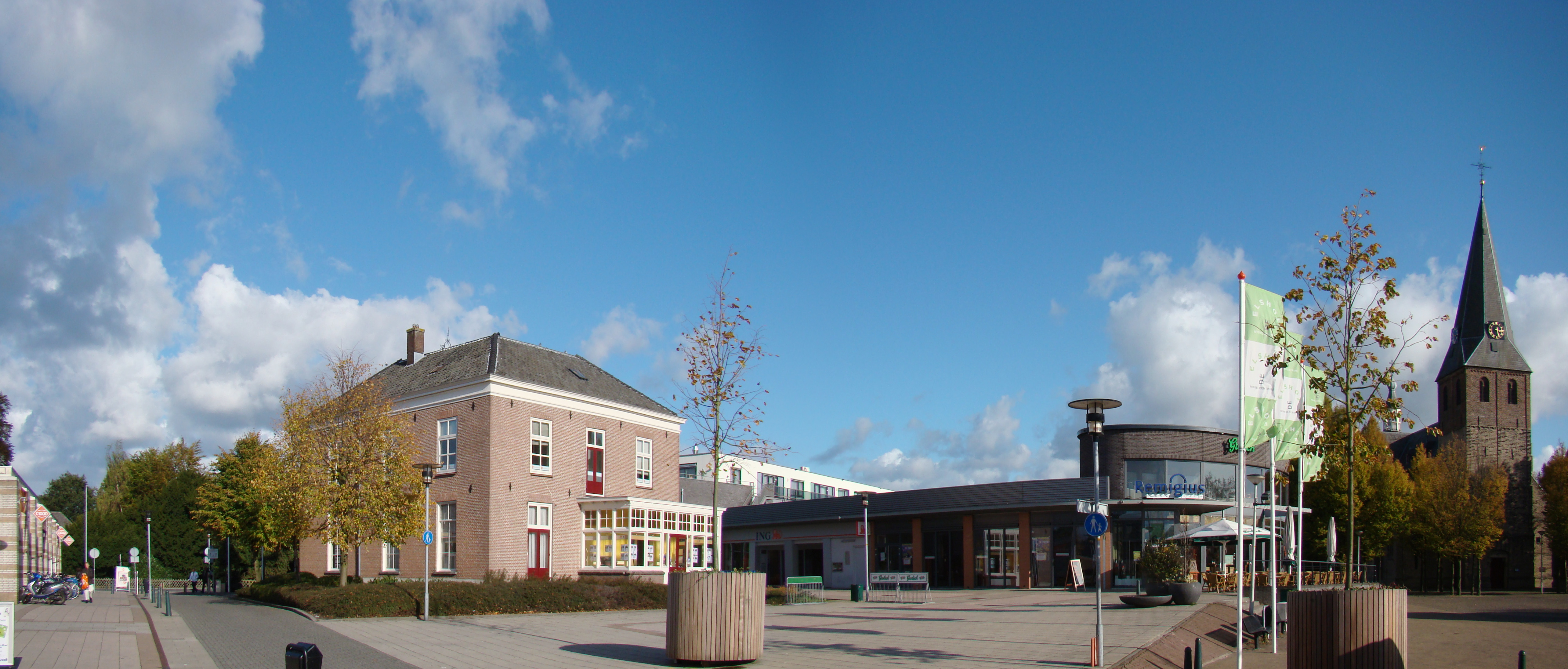 Panorama view on Duiven, Netherlands